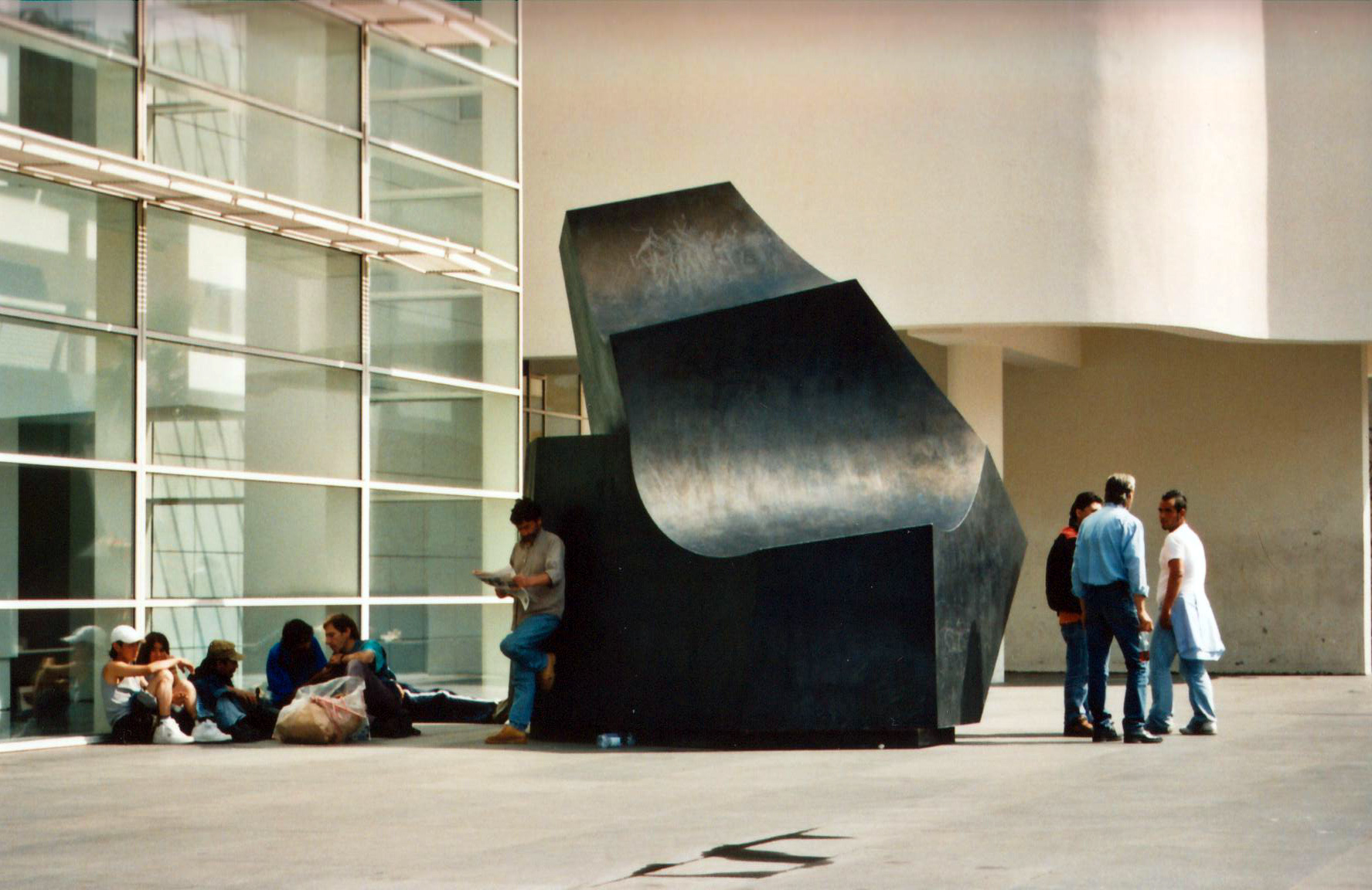 Sculpture "La Ola" (1996) by Jorge Oteiza at MACBA in Barcelona, Spain. El Raval, a Barcelona's Old City neighborhood, was renovated with an 'iconic' building. After more than 10 years since the inauguration of MACBA, one can say that in architectural terms the intervention turned out to be pretty successful. The building is a key figure in El Raval, and its mother-UFO-like presence is recognized not only by urbanists and architects, but also visited/used by all kinds of citizens (